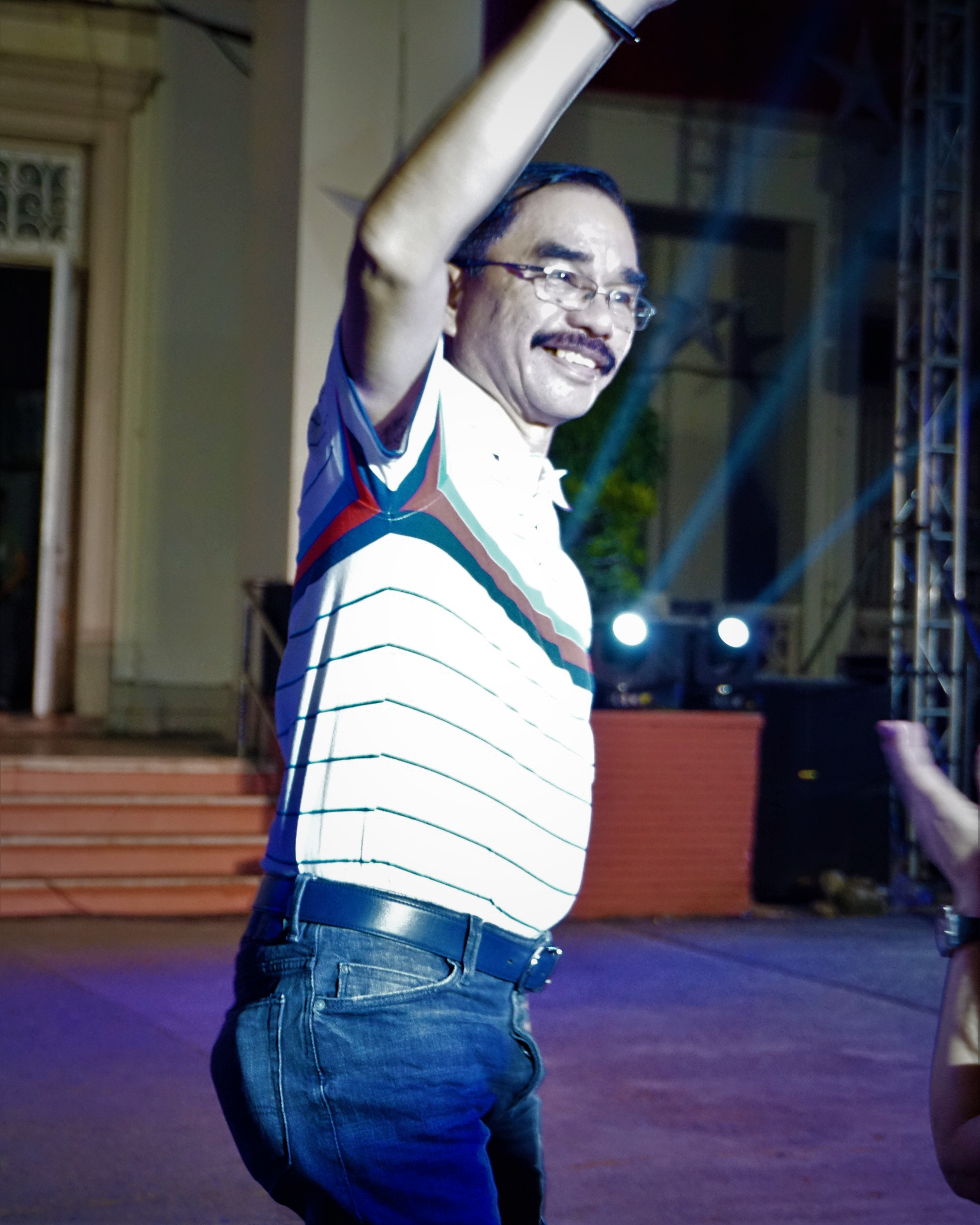 Dale Corvera as Governor of Agusan del Norte, at the 2019 Lights Up at Provincial Capitol of Agusan del Norte.